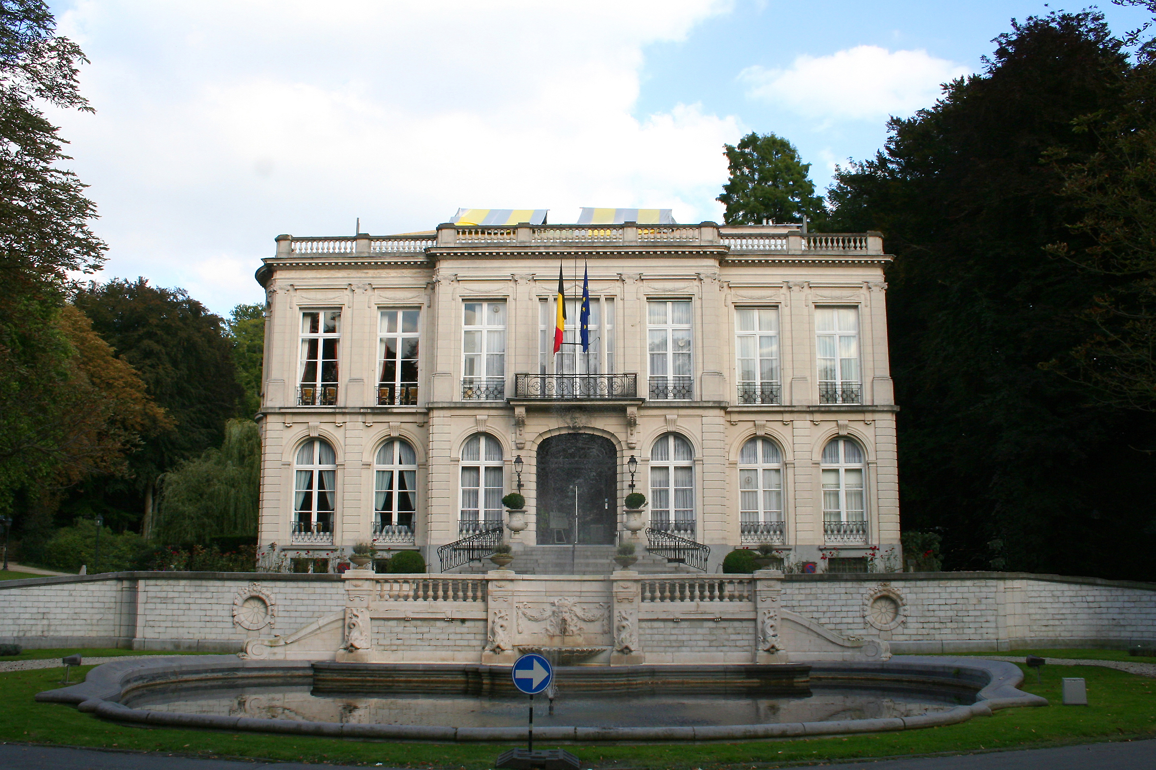 Auderghem (Belgium), the Saint Anne castle (1902).